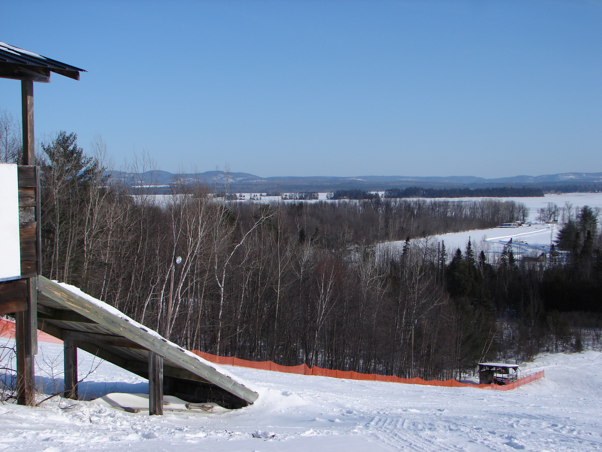 Ski hill in Petawawa, Ontario, Canada, with the Ottawa River in the background